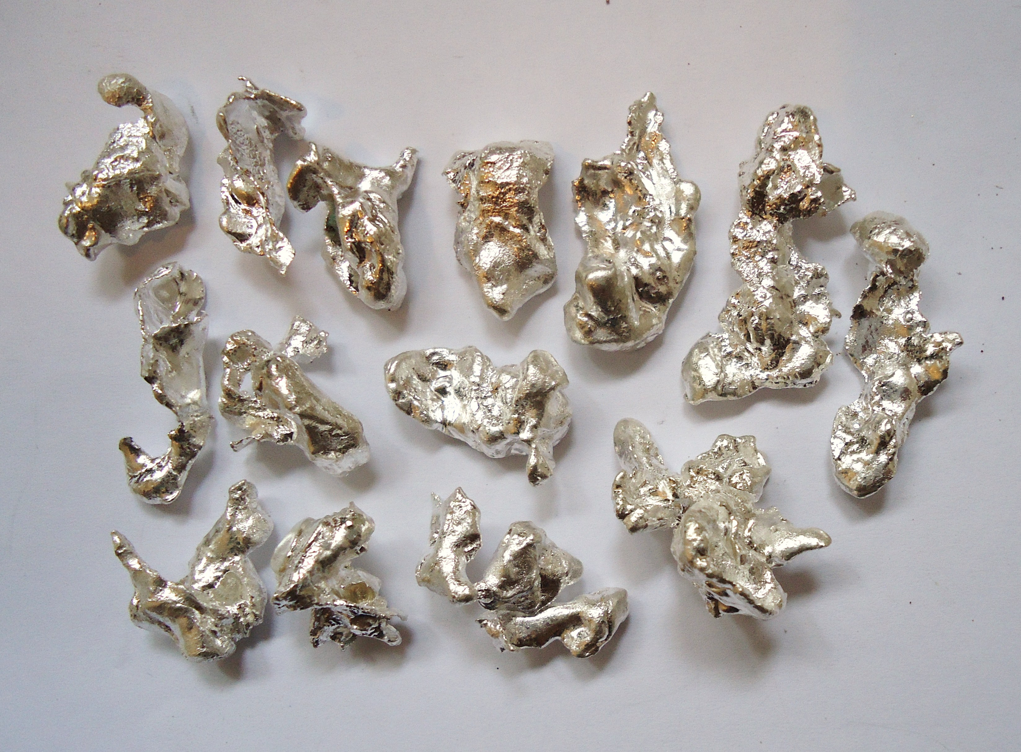 About 90 grams of fine silver.